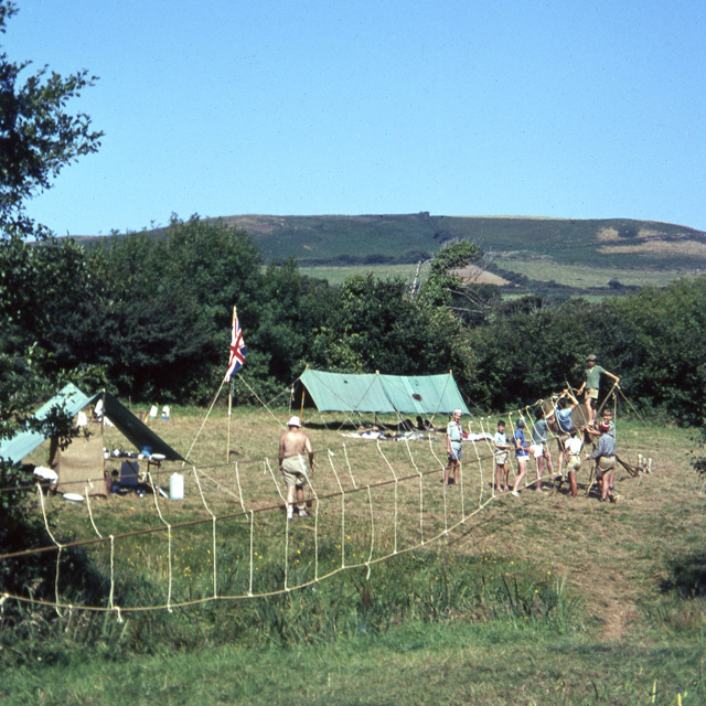 Scout camp near St Gabriel's "Monkey bridge" under construction. The grid reference is an estimate, but believed to be correct.